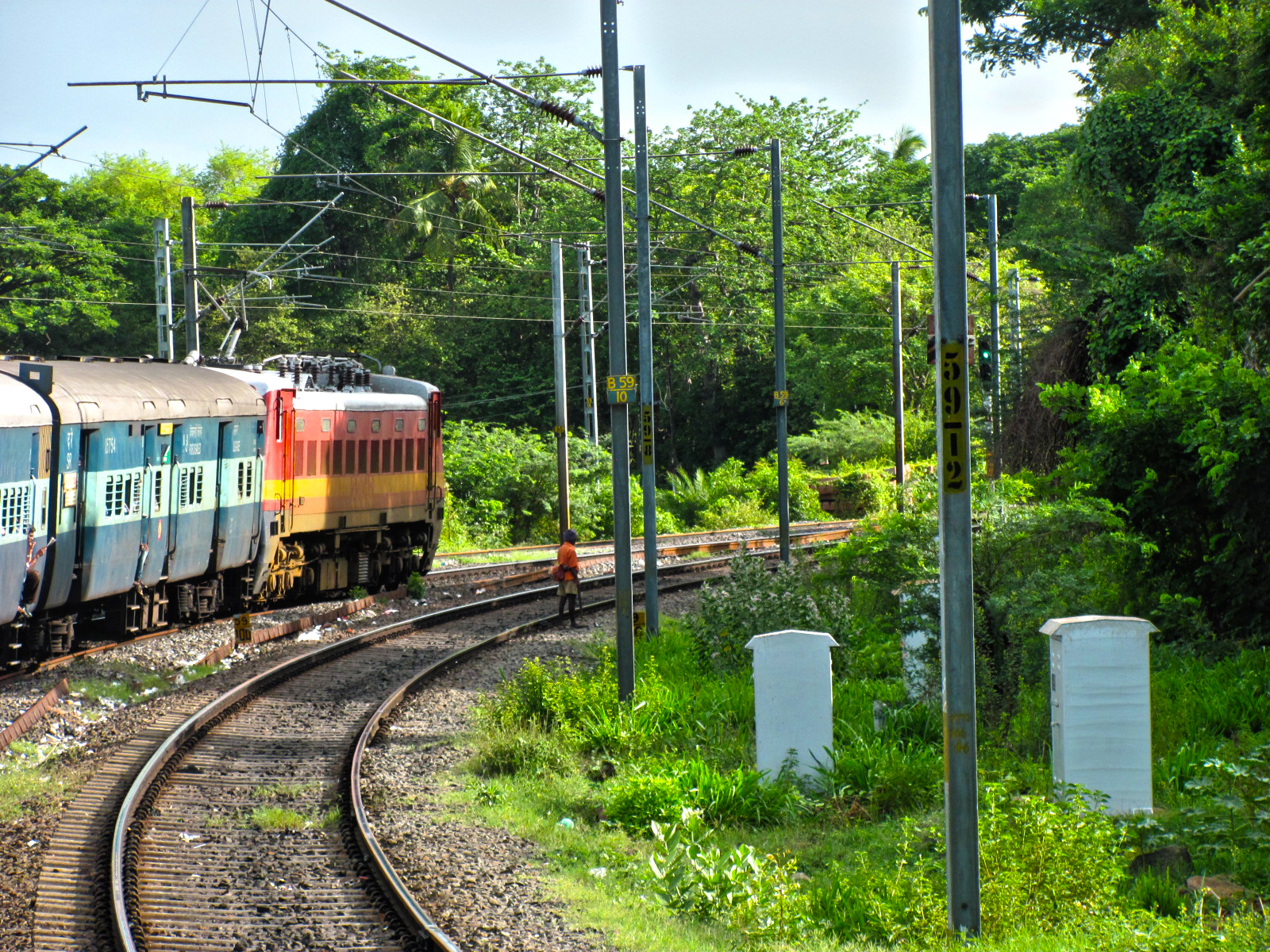 6124 Tiruvananthapuram-Chennai Egmore Ananthapuri Express just leaving Chengalpet railway station with a WAP-4 in lead...